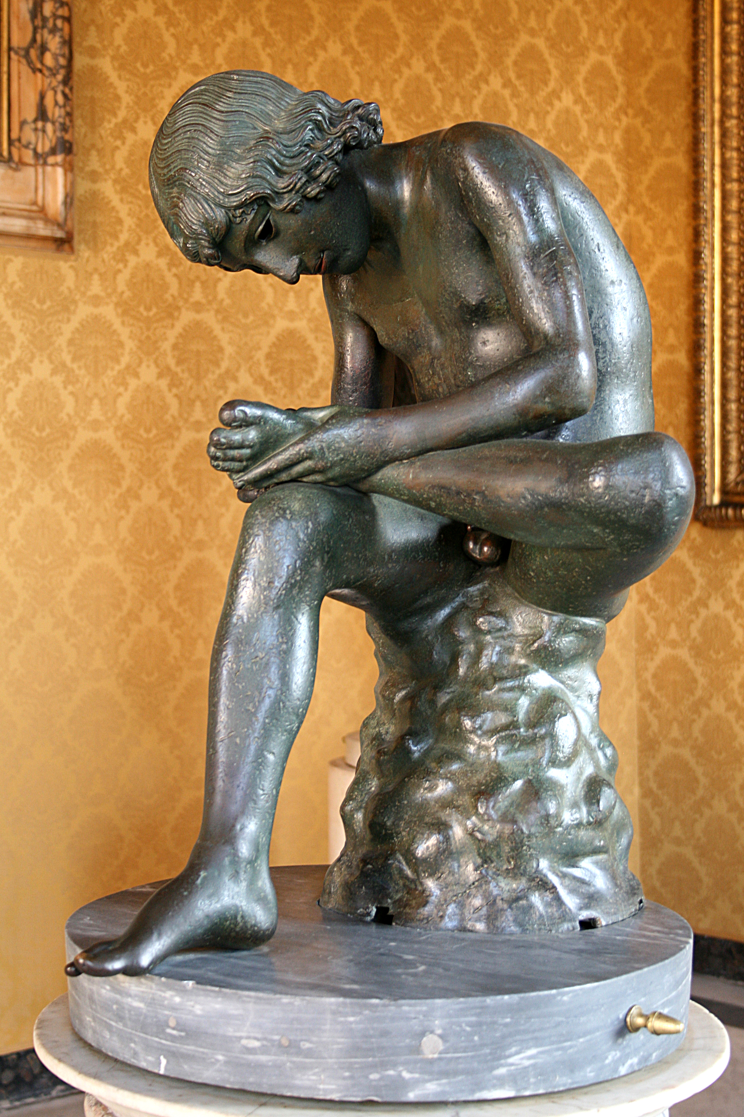 Detail of the Spinario or Thorn-Puller. Greek artwork of the Late Helelnistic era after classical and hellenistic models.